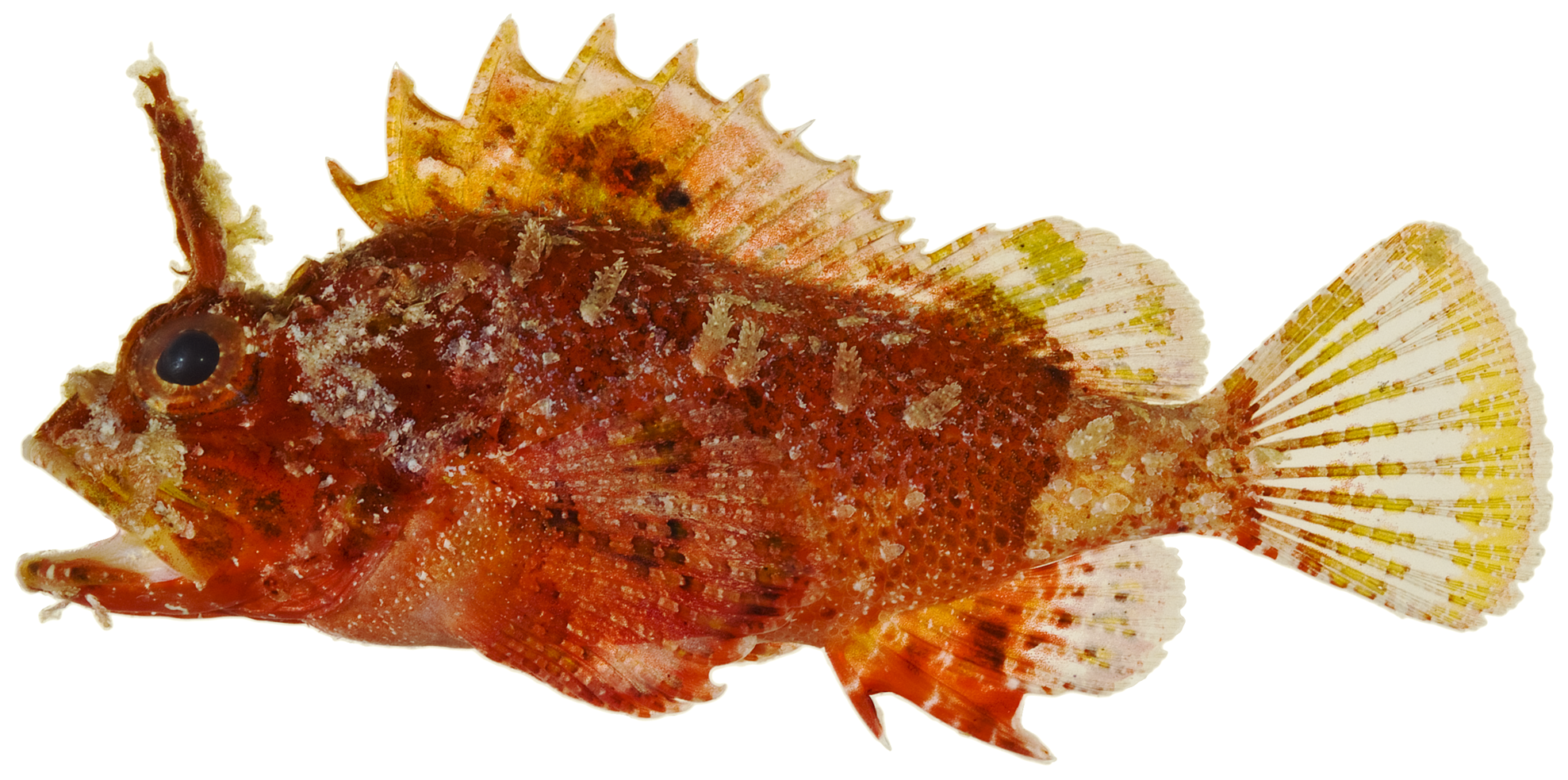 Scorpaena grandicornis Cuvier, 1829—plumed scorpionfish, 65.1 mm SL. Photo by JT Williams.